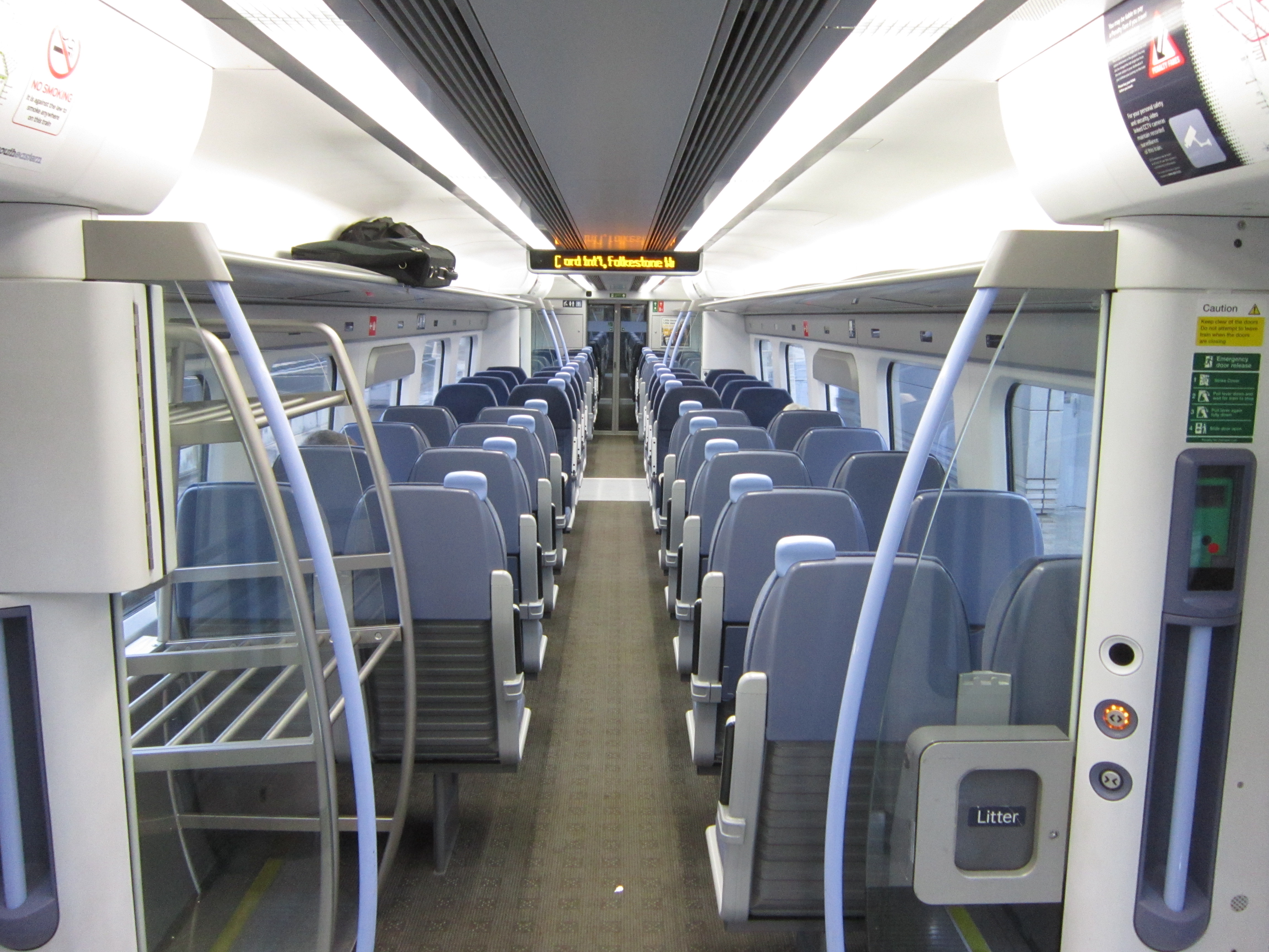 Standard class interior aboard Southeastern Highspeed train 395029